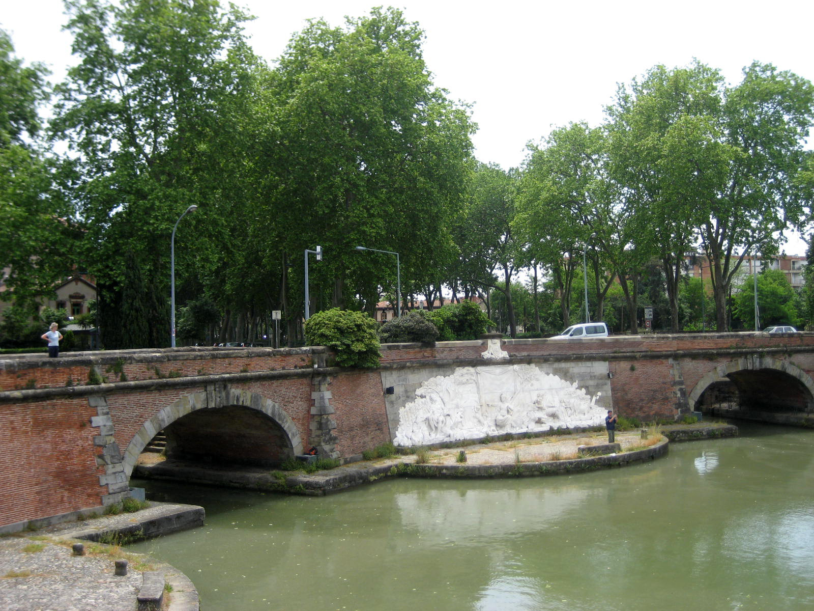 The Ponts Jumeaux (